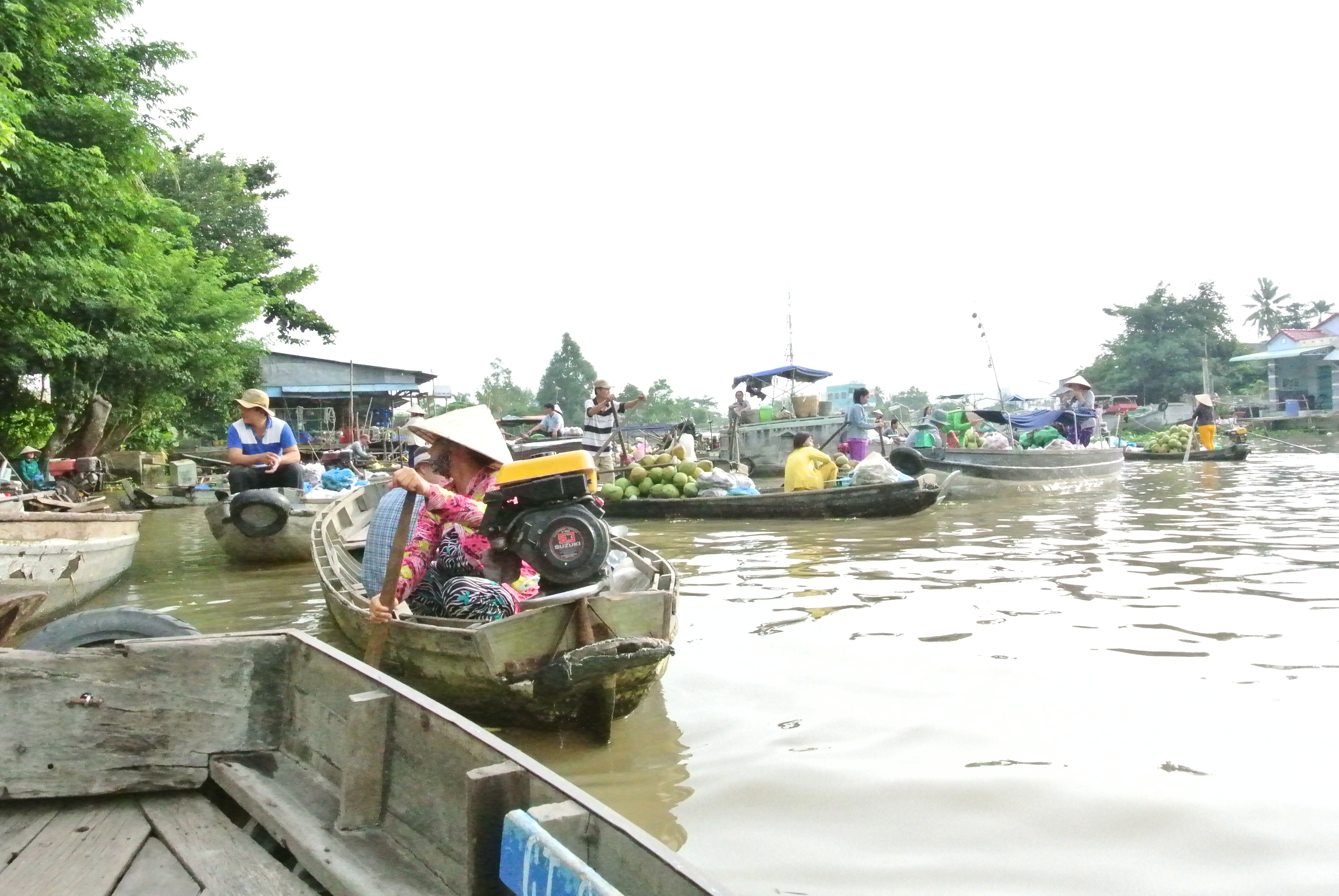 Phon Dien floating market at Can Tho Vietnam